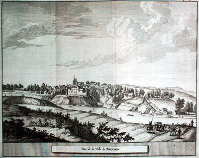 Historical view of the Schottisch village Brenchin